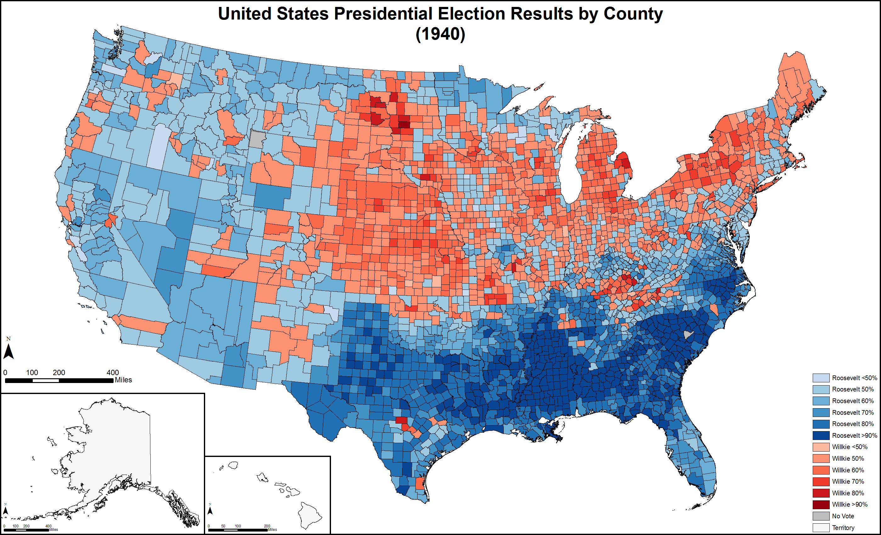 Presidential election results by county (1944). Colors based on Colorbrewer 2.0.